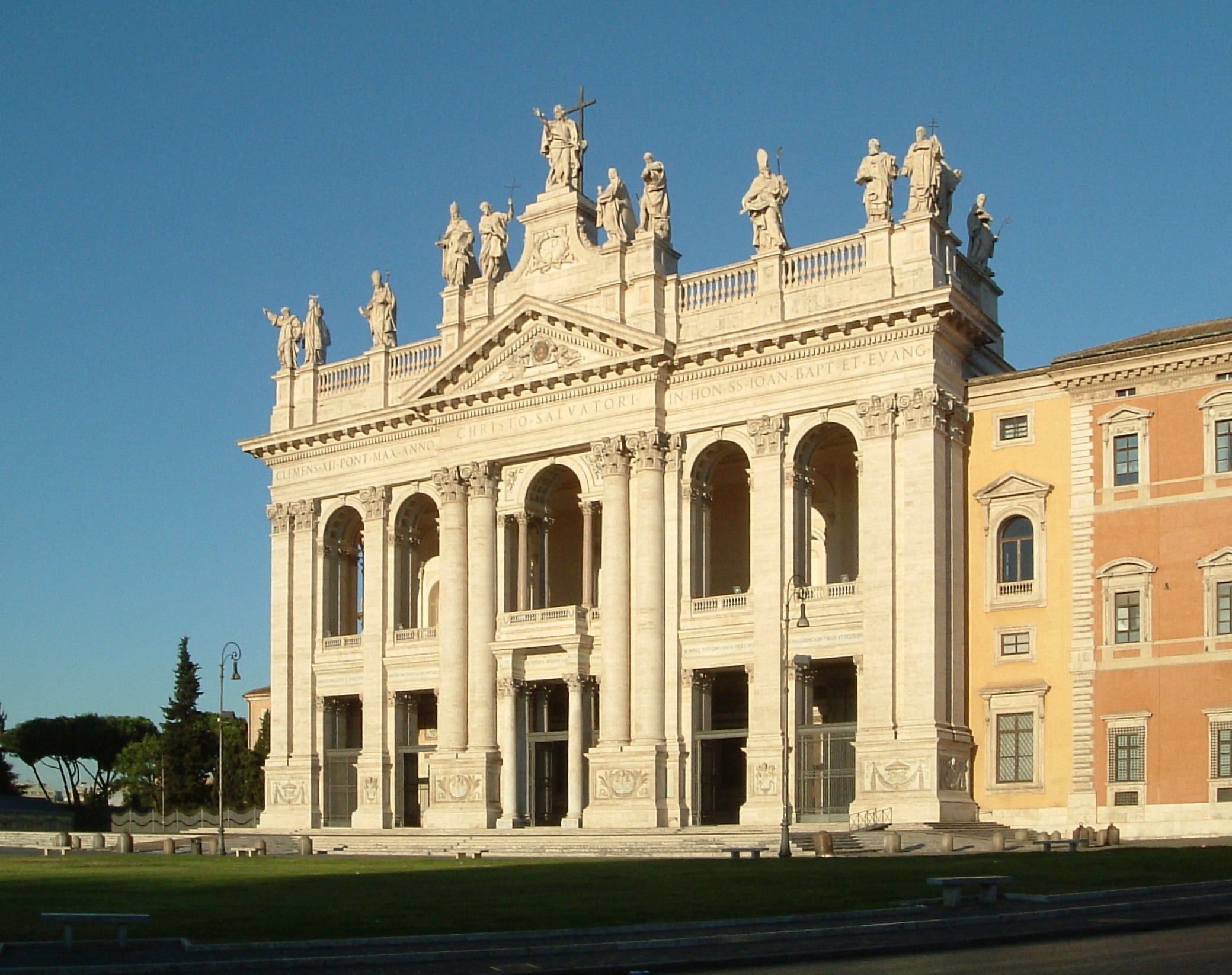 Facade of the Basilica of San Giovanni in Laterano, Rome, Italy.